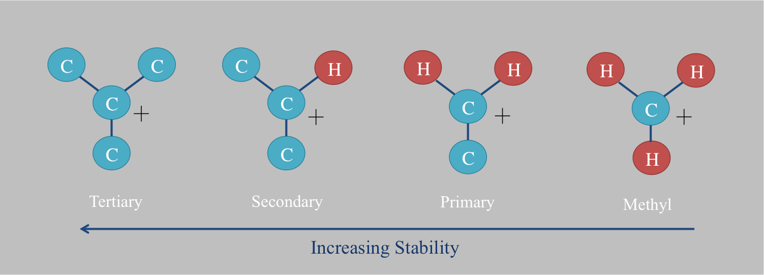 Depiction of carbocation stability trending with bonded carbons. The adjacent electron donation stabilizes the positive charge.